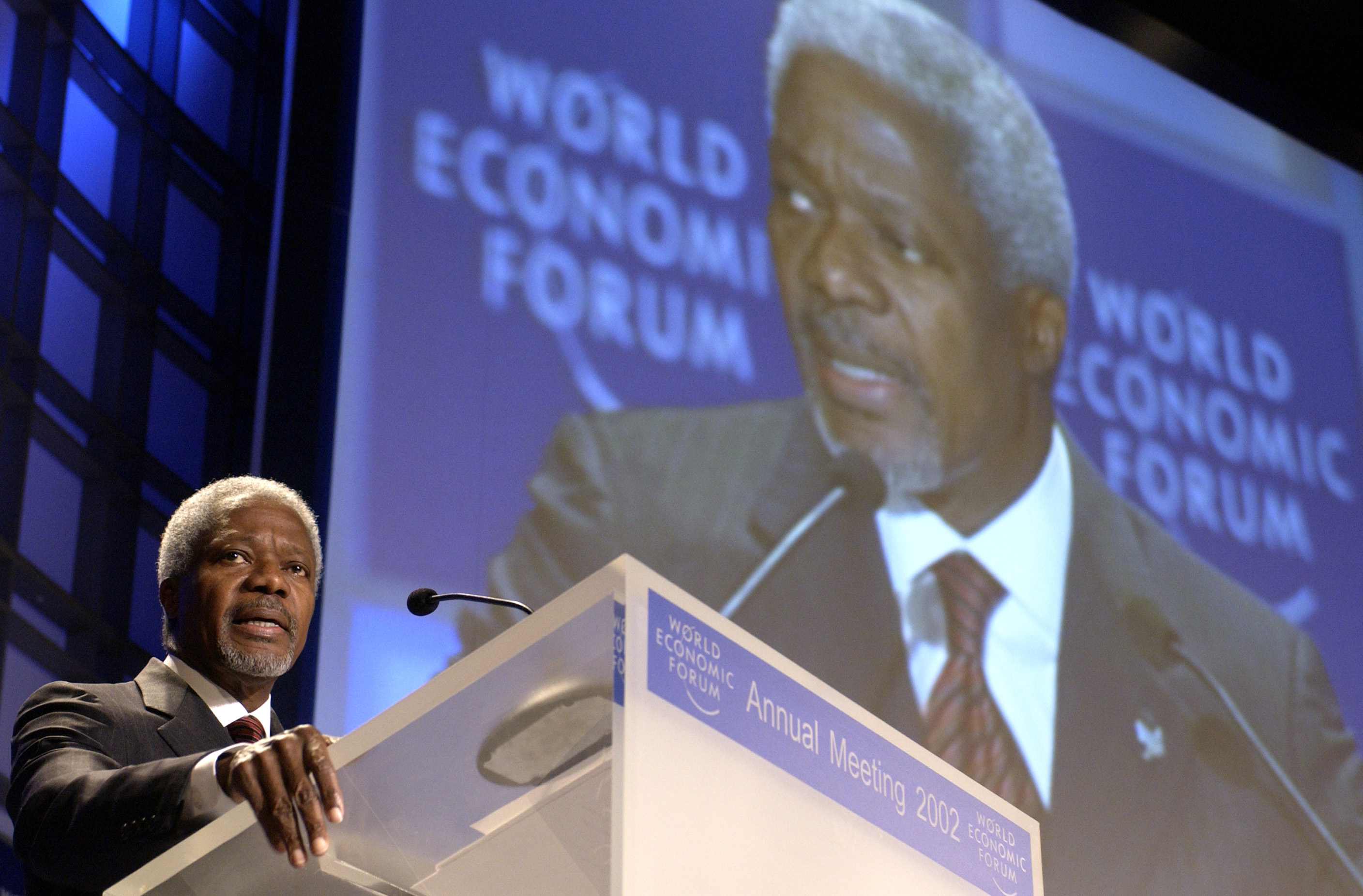 NEW YORK,4FEB02 - Kofi Annan, Secretary-General of the United Nations, speaks to the audience during the closing session of the 32nd Annual Meeting of the World Economic Forum at the Waldorf-Astoria hotel on February 4, 2002. by Marcel Bieri